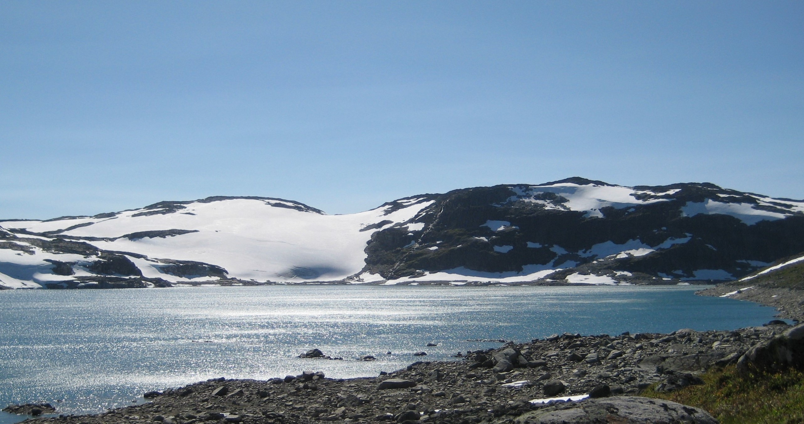 Looking towards Svartavassbreen and Alvsnosi with Svartavatnet in the foreground. The summit cairn is just visible